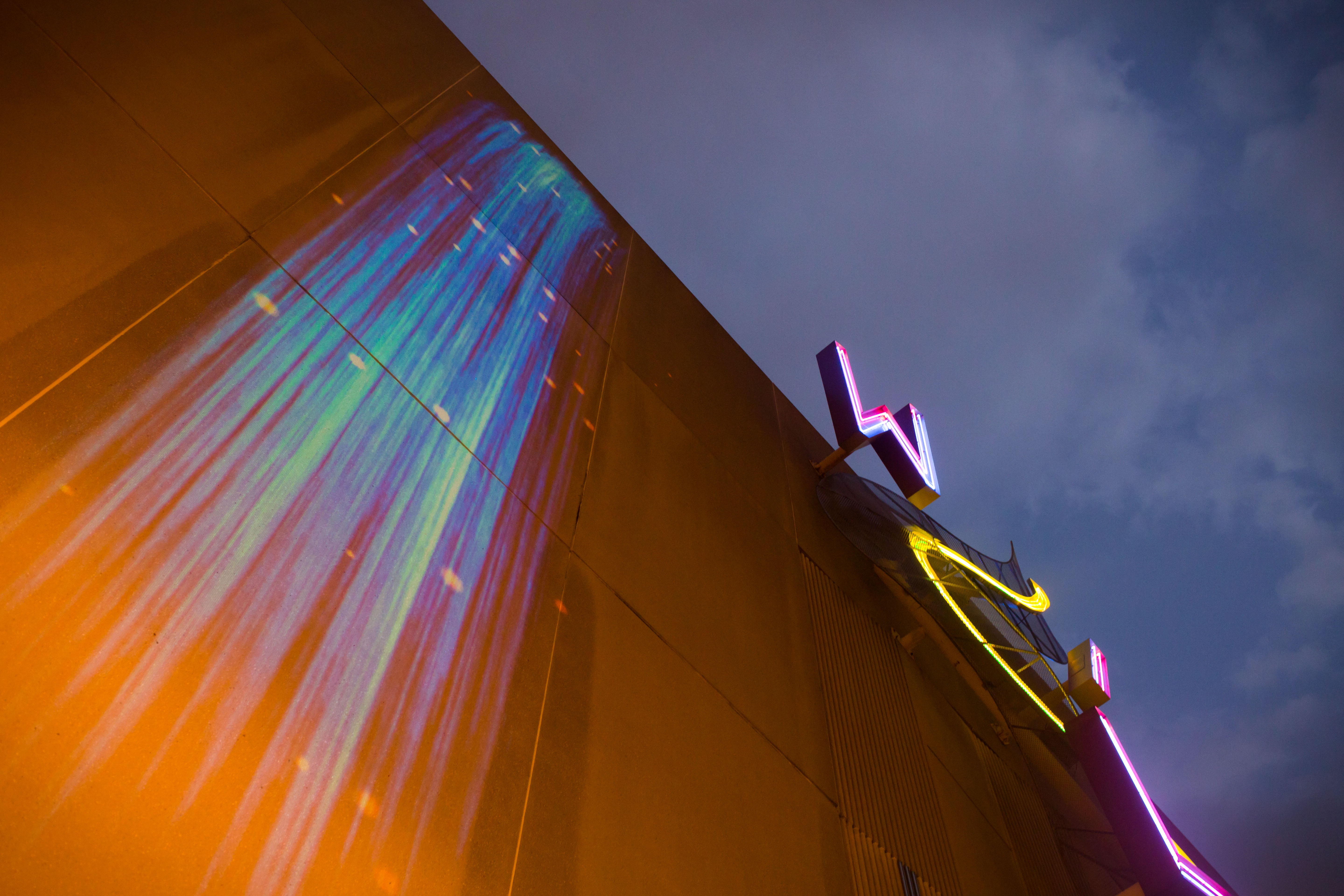 Photograph of the "Particle Falls" art installation on the outside of the Wilma Theater. Created by environmental artist Andrea Polli, the colors broadcast onto the wall are determined by the amount and types of particulate matter in the air at any given moment. Taken at the opening for the 2013 Particle Falls installation at the Wilma Theater, Philadelphia, part of the Sensing Change exhibit organized by the Chemical Heritage Foundation, Philadelphia, PA, USA, 26 September 2013.